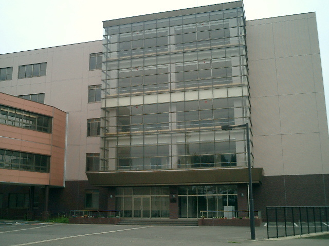 Building No.6 of National Institute of Technology, Nagaoka College